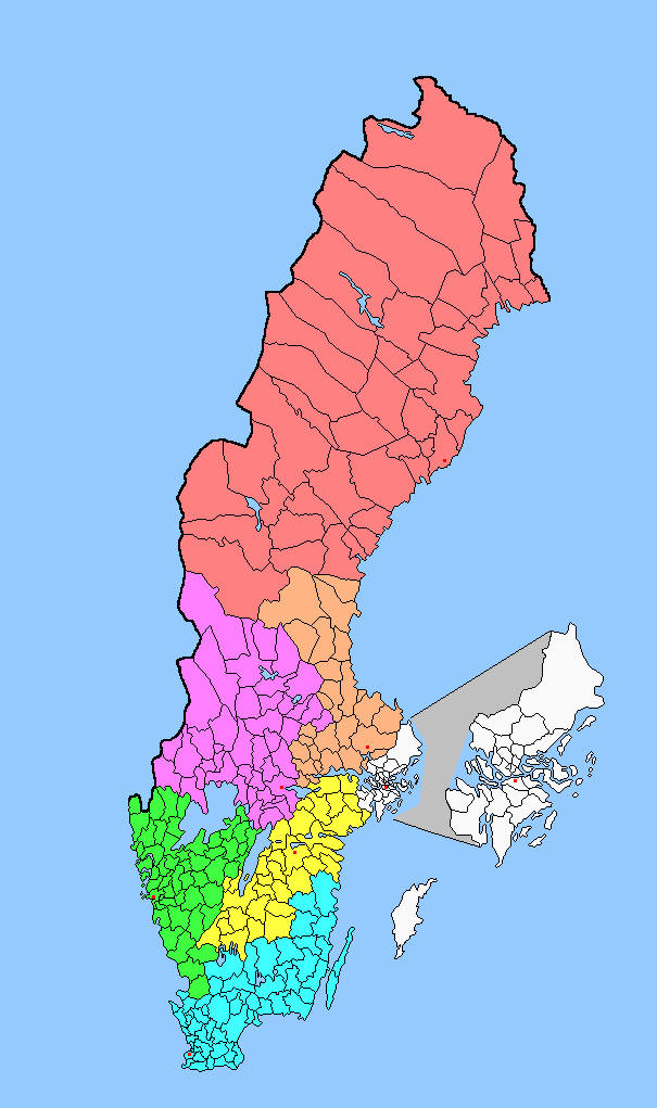 Subdivision of the Swedish police.